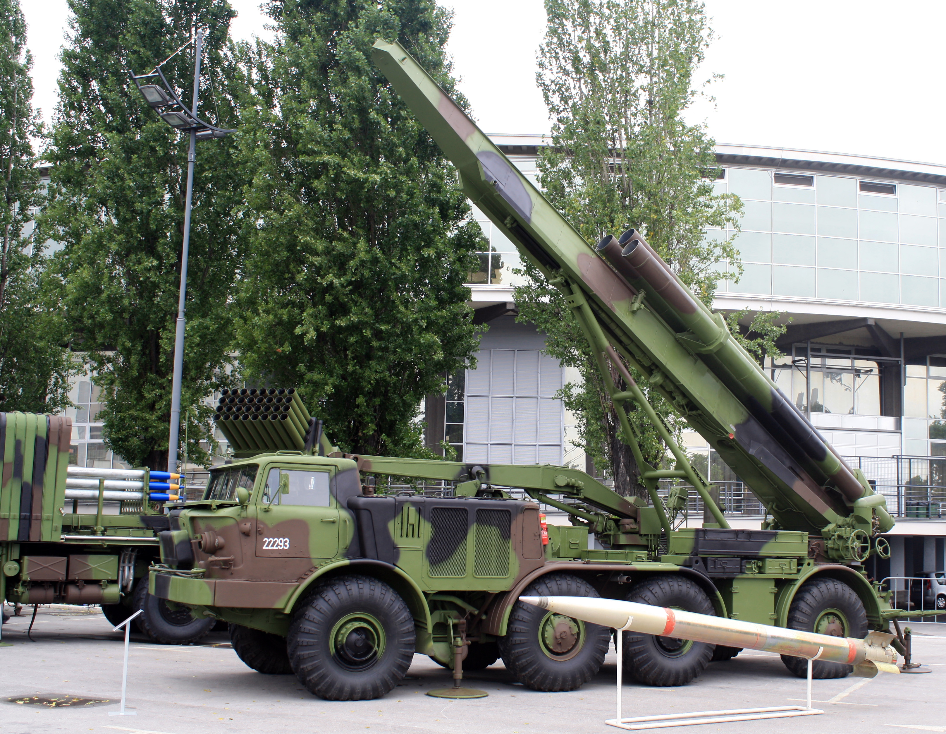 M96 Orkan II 262mm multiple rocket launcher of Serbian Army on display at "Partner 2011" military fair.